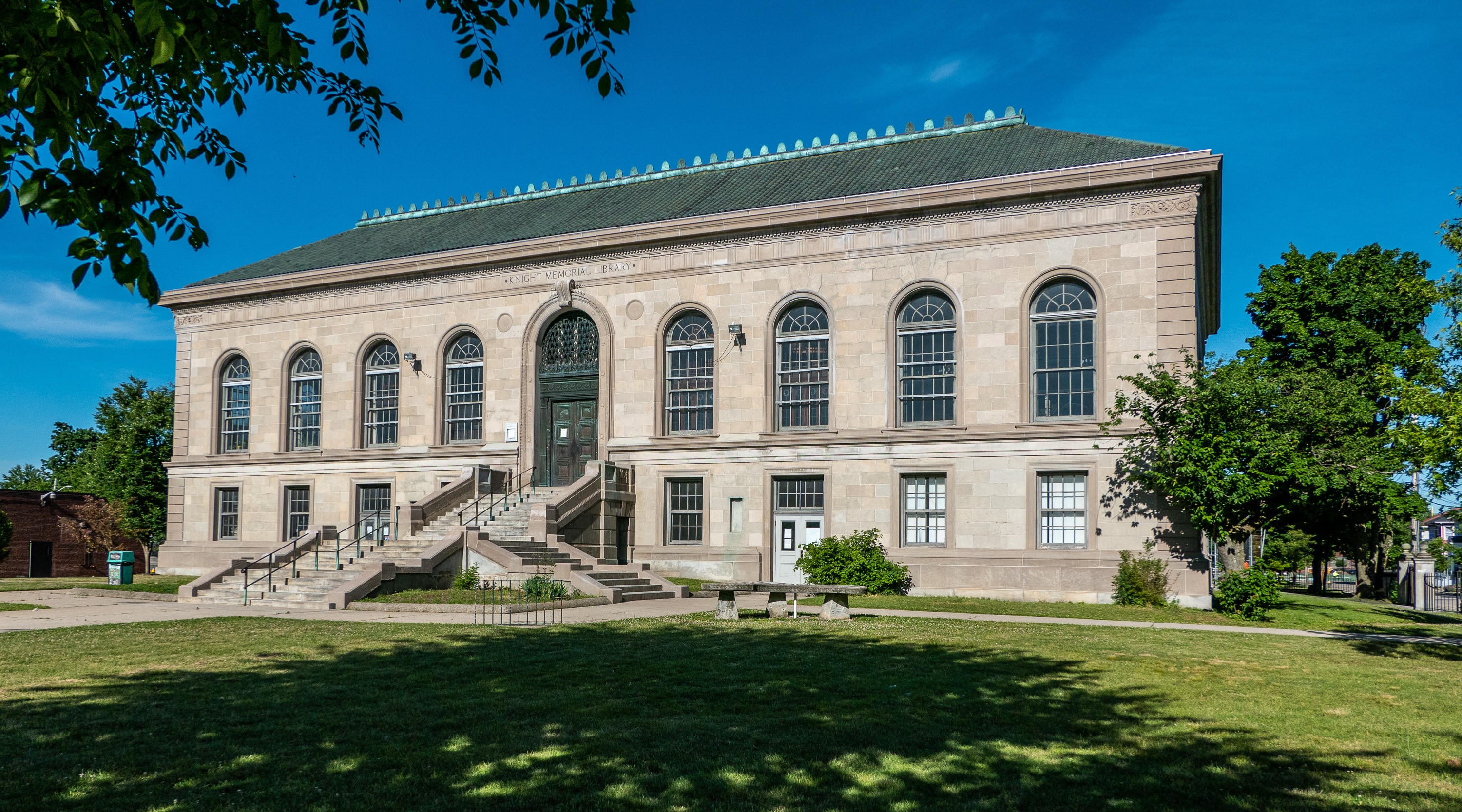 Knight Memorial Library. 275 Elmwood Avenue, Providence. Designed by Edward Lippincott Tilton. Opened 1924.